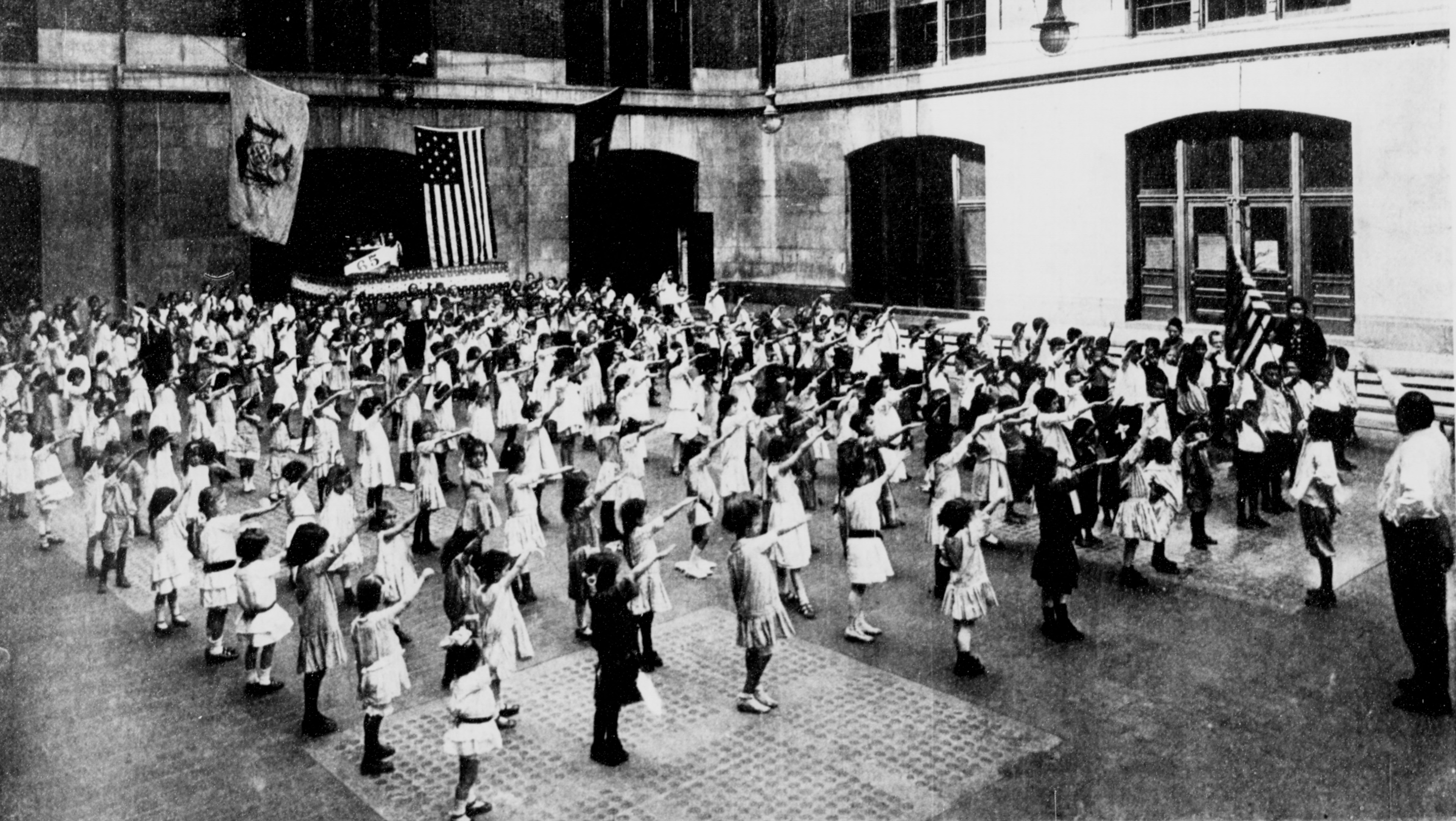 First the flag of our country—The melting pot of the nations at white heat.